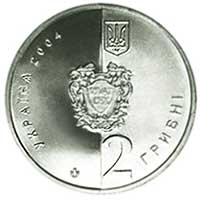 Coin of Ukraine